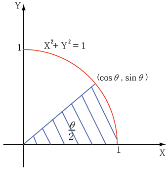 An illustration of 双曲線関数（Hyperbolic function）